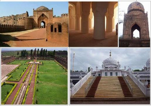 Bidar Monuments